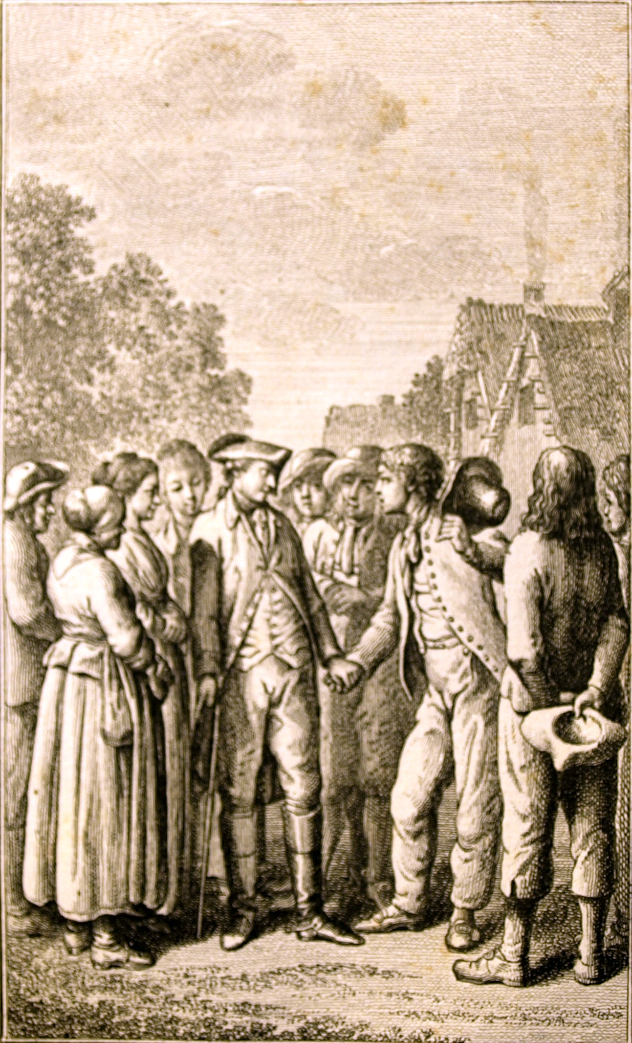 Illustration from Johannes Ewalds "The Fishermen". Engraving by Chodowiecki.